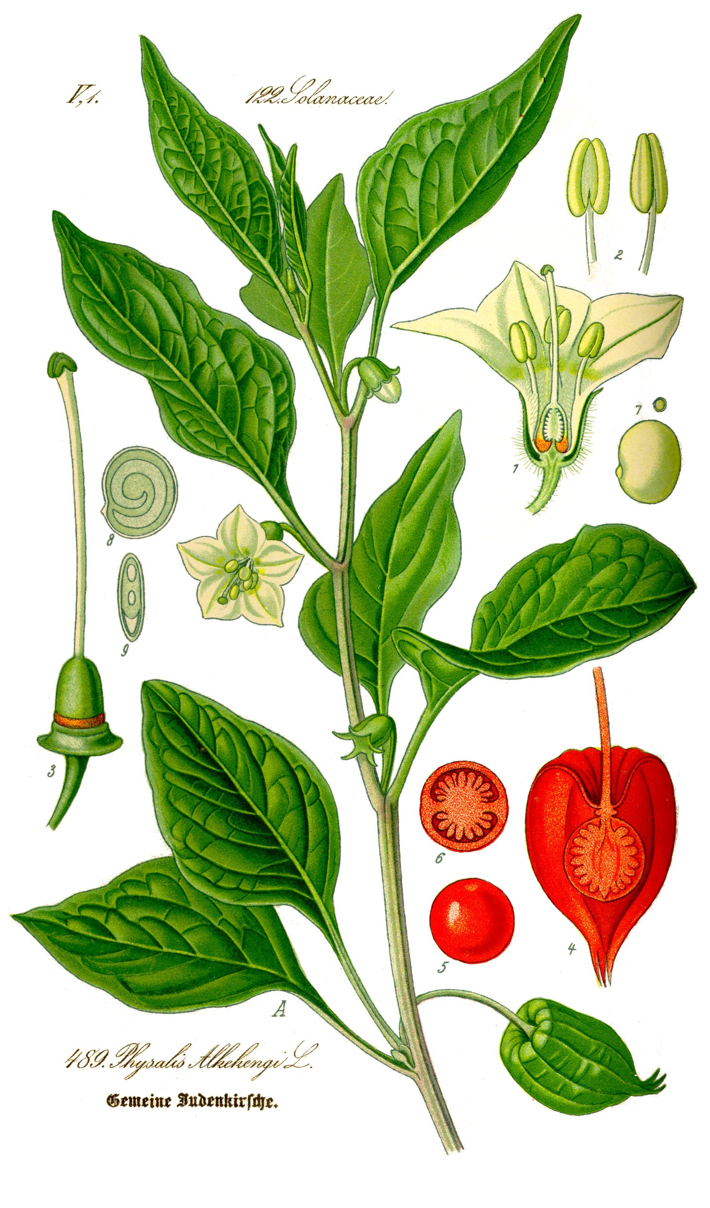 Name Physalis alkekengi Family Category:Solanaceae